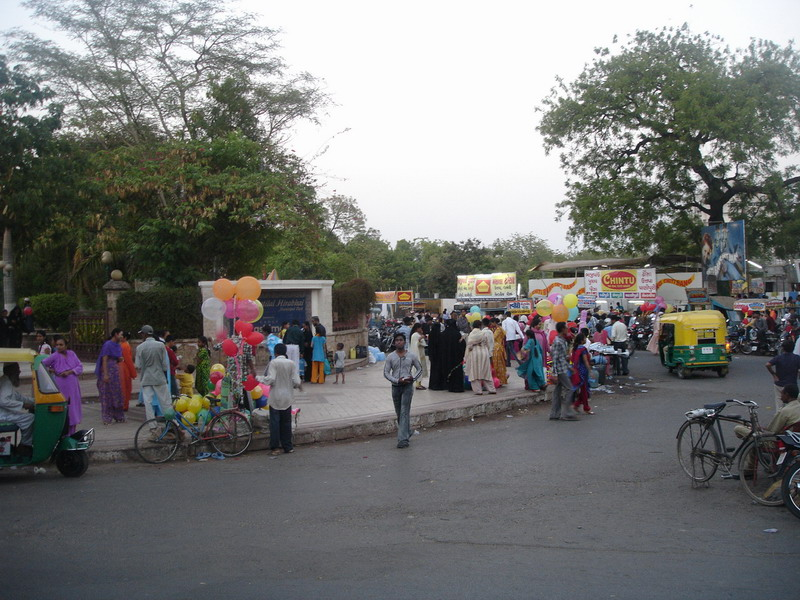 clicked by me - Srikeit(talk ¦ ✉) 11:11, 15 May 2006 (UTC)